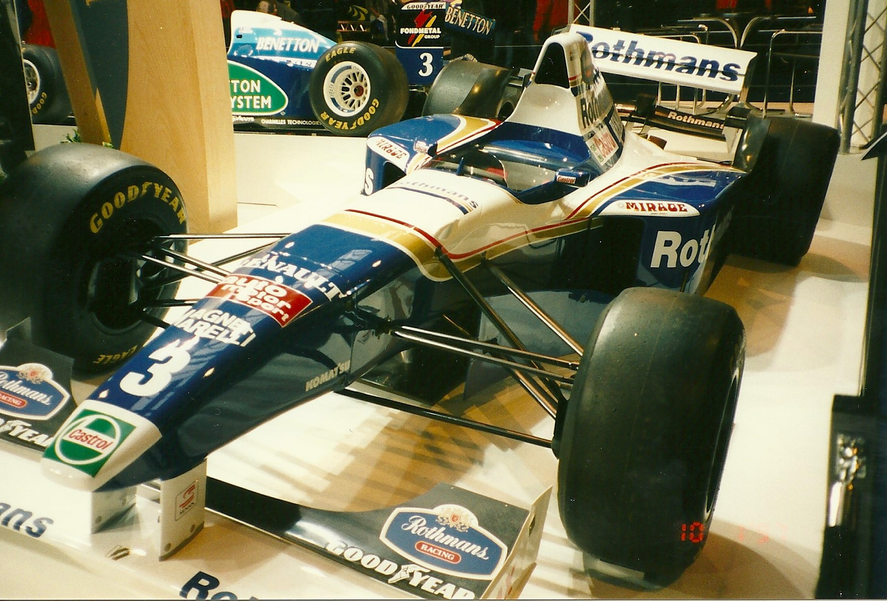 Williams FW17 from 1995 with the livery of Villeneuve's Williams FW19 from 1997 at the 1997 Autosport International